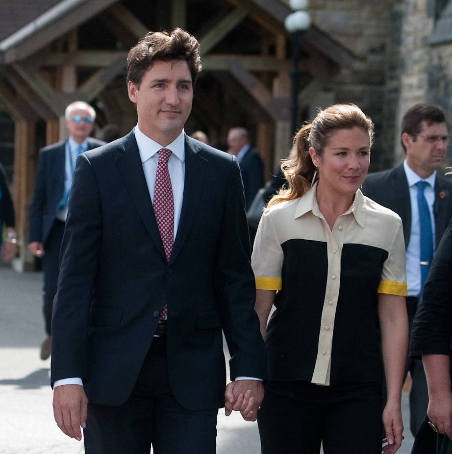 On June 13, 2017 The Right Honourable Justin Trudeau, Prime Minister of Canada, and President/CEO of Women Deliver Katja Iversen announced that Vancouver, Canada will be the official location for the Women Deliver 2019 Conference. They were joined by Madame Sophie Grégoire Trudeau, Minister Marie-Claude Bibeau, and Minister Maryam Monsef. Photo: Women Deliver Learn more about the Women Deliver 2019 Conference